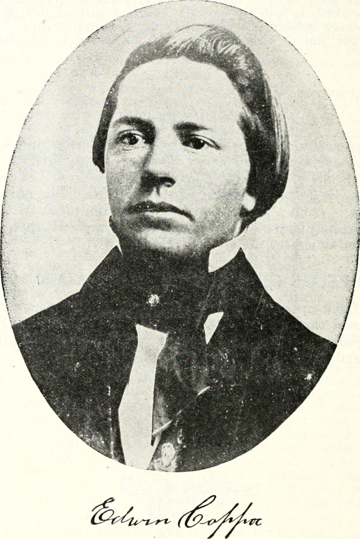 Title: Ohio archæological and historical quarterly Year: 1887 (1880s) Authors: Ohio State Archaeological and Historical Society Subjects: History Archaeology Publisher: Columbus : Published for the Society by A.H. Smythe Text Appearing Before Image: ' Text Appearing After Image: (396) EDWIN COPPOC. BY C. B. GALBREATH. Among many villages of our state that pursue theeven tenor of their way so peacefully and quietly thatthey earn their way to honorable obscurity, is Winona,Columbiana County. This name was chosen fromLongfellows Hiawatha, for the citizens of this placefind time to read, enjoy what we dignify as literatureand are in a very useful and unpretentious way cul-tured. The church and the school are liberally patron-ized. The moral standard of the community is high. Through the bellum and ante-bellum days this villagewas simply a crossroads, unnamed as yet, with little todistinguish it from the surrounding country, which isrolling, well watered and fertile. It was not christenedWinona until the year 1868. Hither in pioneer days at the opening of the last cen-tury came the Quakers, chiefly from North Carolina.The admission of Ohio as a free state in 1803 made itattractive to these people. They were uncompromis-ingly opposed to slavery. They did not seek c